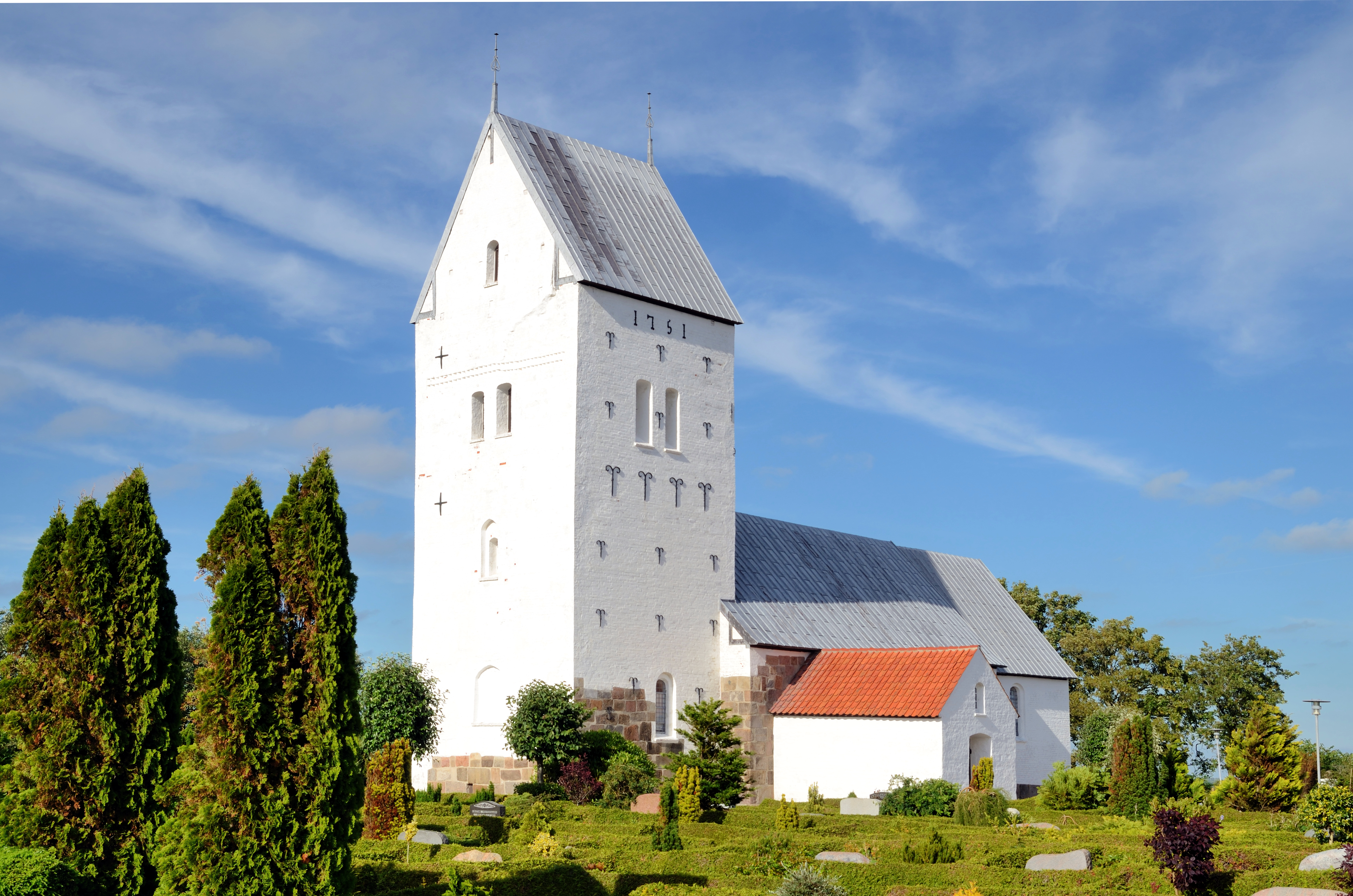 Lønborg Church